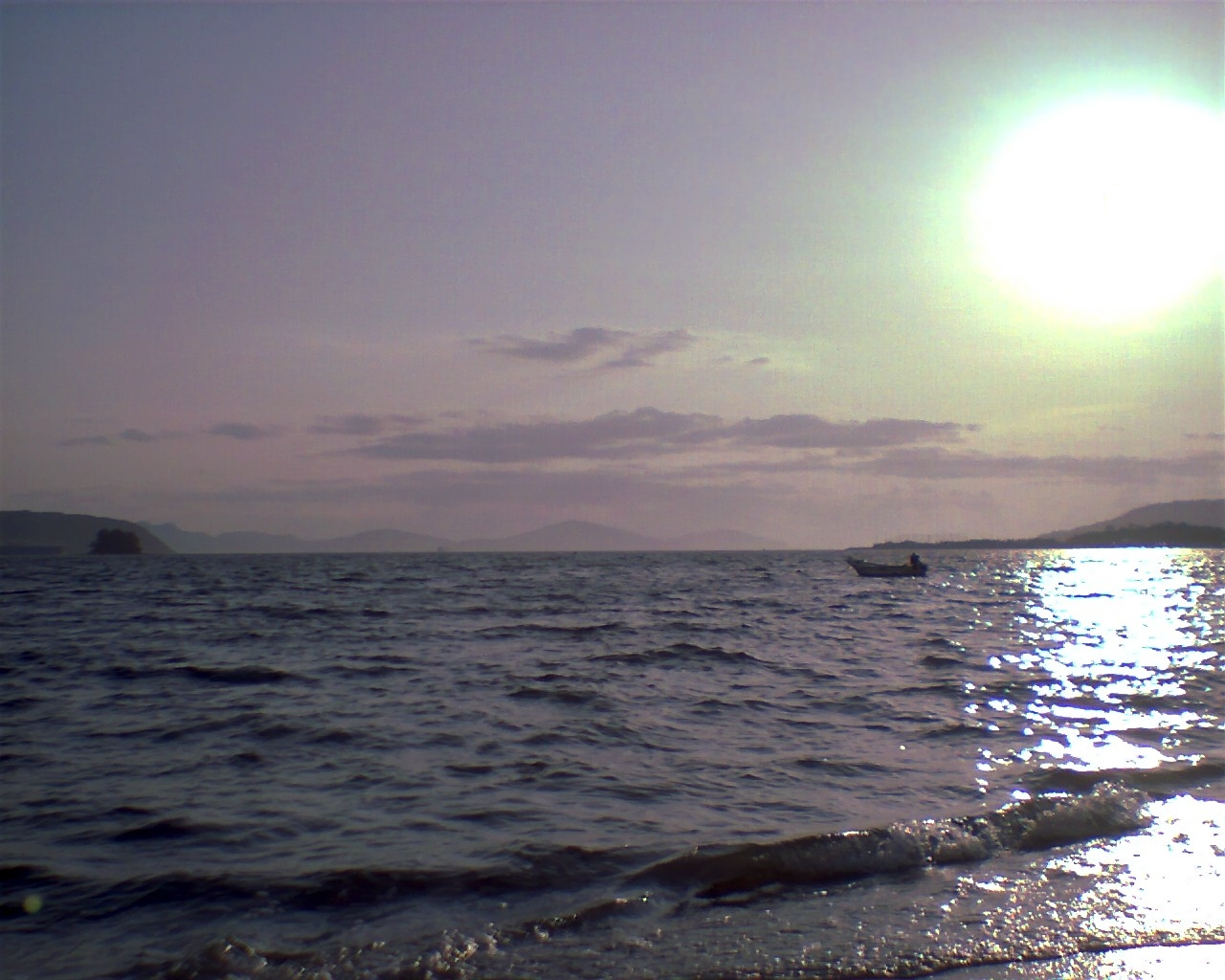 Hakata Bay (ja: 博多湾, Hakata-wan) in a part of the Fukuoka city. The bay is in the Fukuoka prefecture, surrounded by the Itoshima Peninsula and the Shikanoshima and part of the Fukuoka city. Taken by uploader (User:Histwr) and is also used on here. (June 21, 2006)